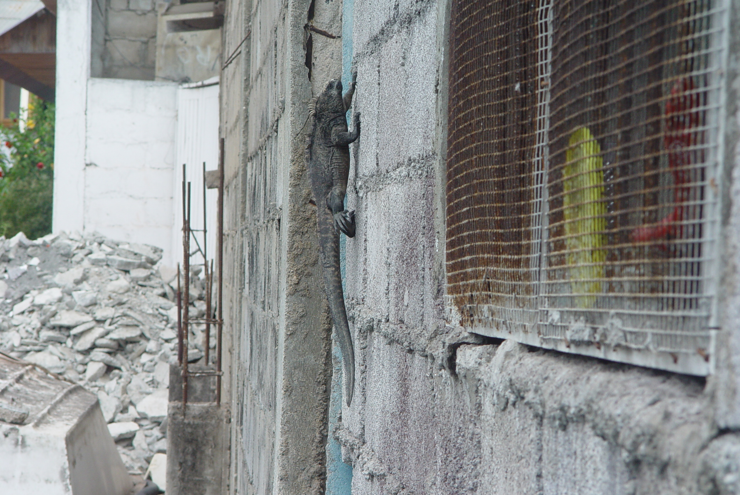 Marine iguana (Amblyrhynchus cristatus) climbing the wall, Santa Cruz Island, Galápagos, Ecuador